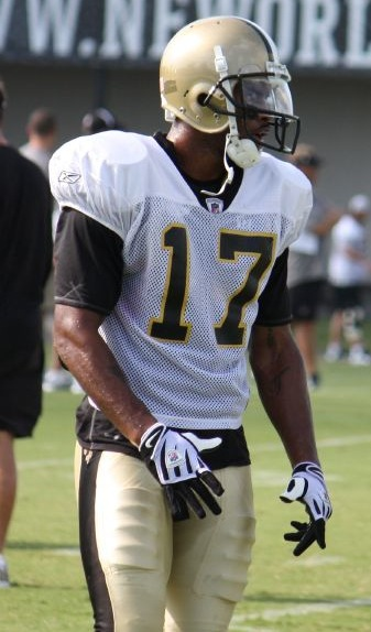 New Orleans Saints wide receiver Robert Meachem at training camp in Metairie, La.